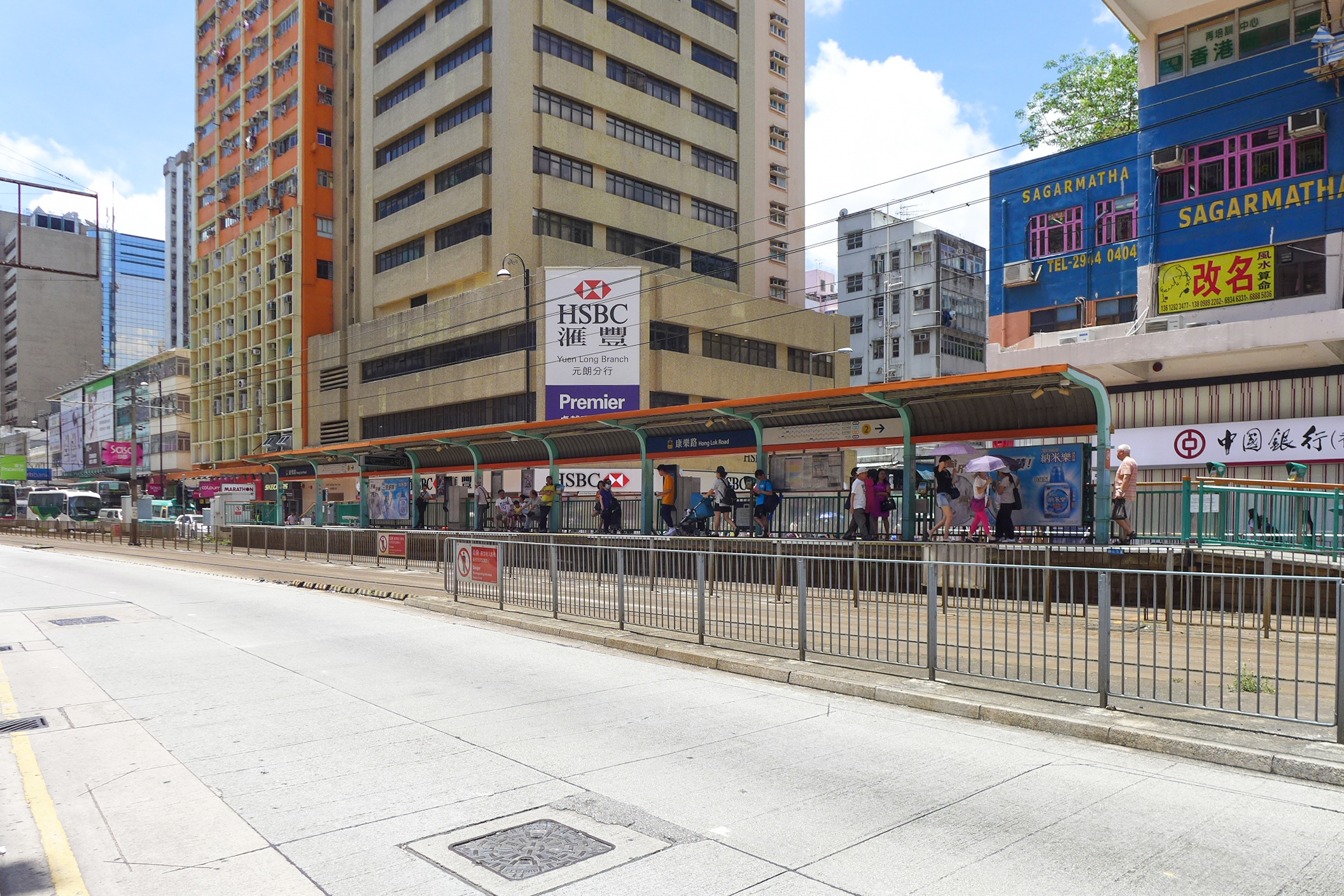 Hong Lok Road Stop